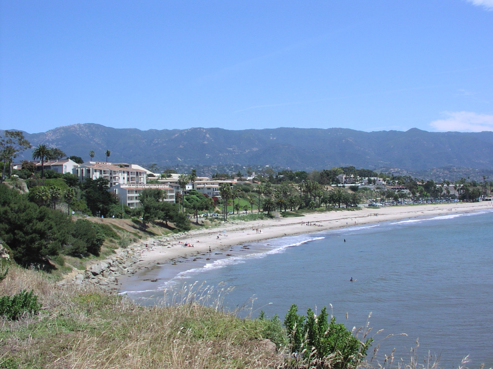 Photo of Leadbetter Beach, Santa Barbara, California, from Shoreline Park, taken May 27, 2006 by Antandrus